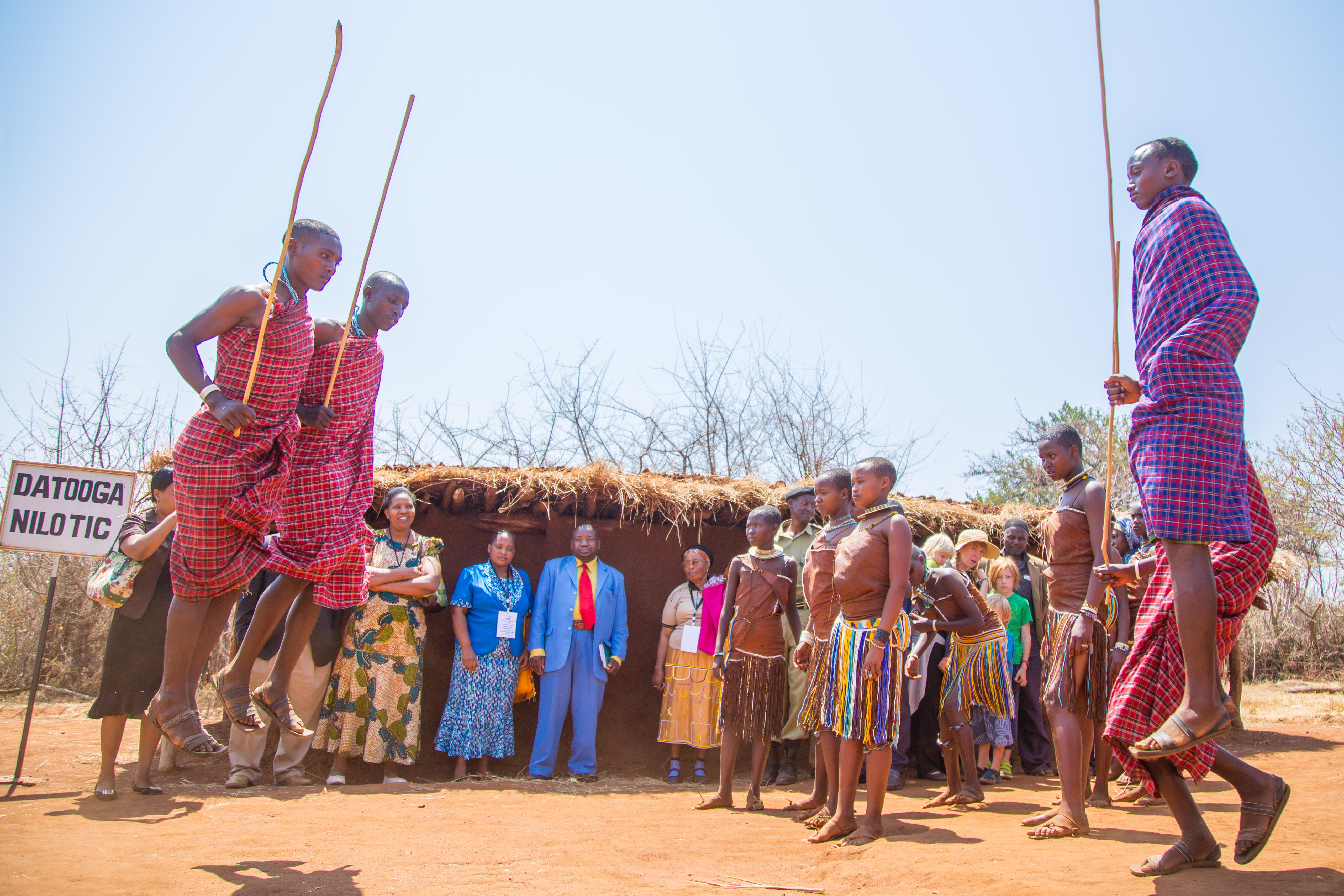 This is an image from Tanzania